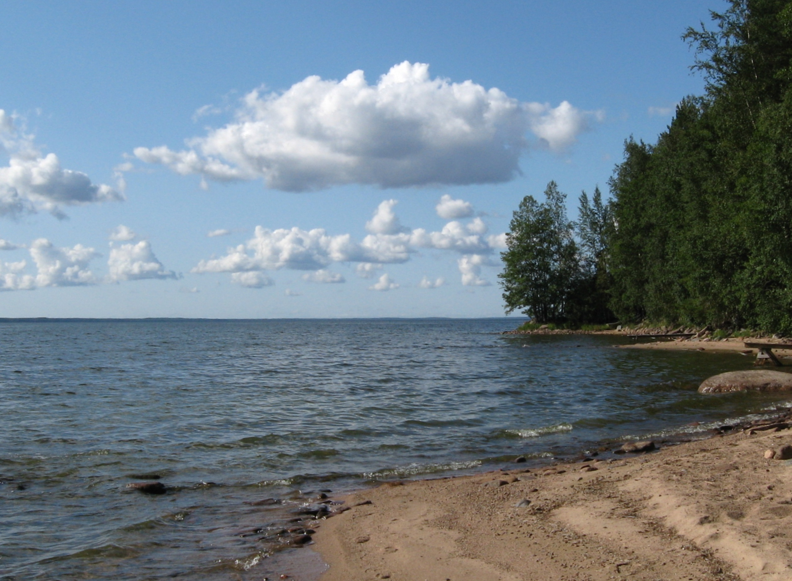 Lake Pyhäjärvi, Säkylä, Finland